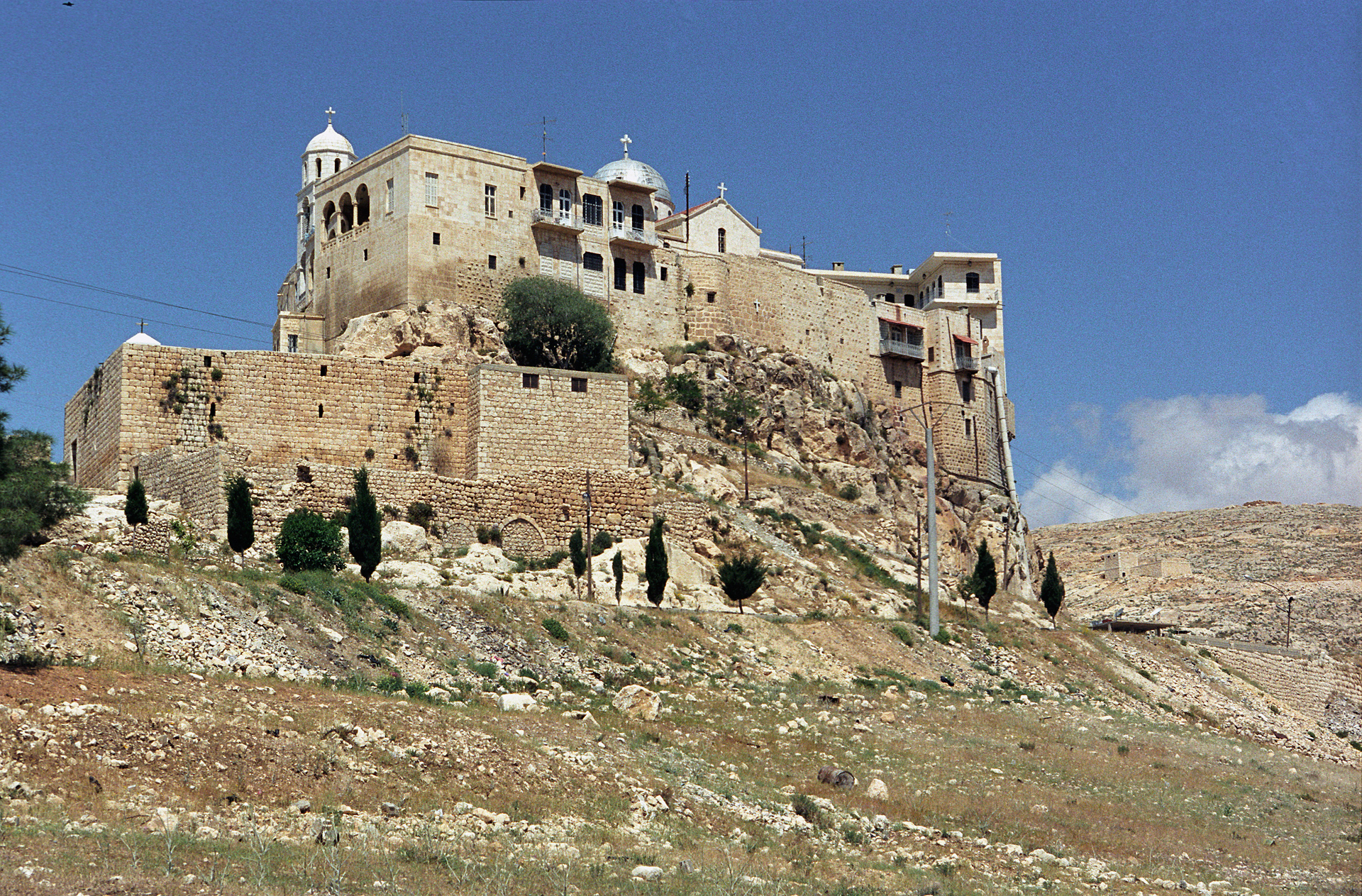 Convent of Our Lady of Seidnaya - general view, Syria